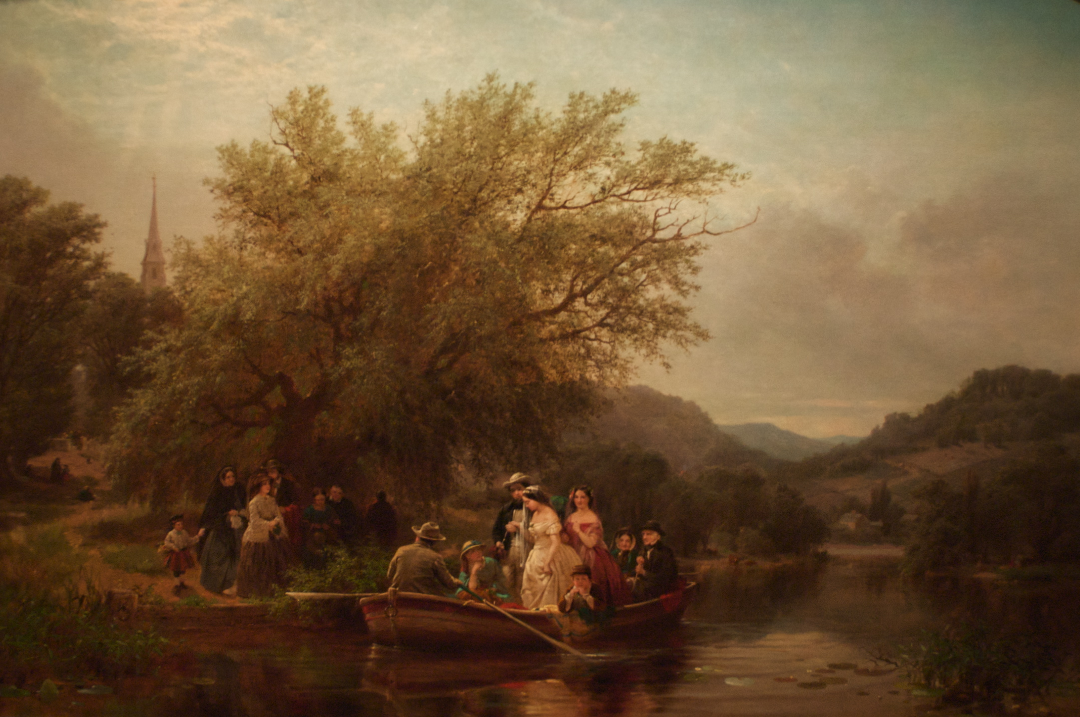 Albert Fitch Bellows (American, 1829-1883).Life's Day or Three Times Across the River: Noon (The Wedding Party), 1861.Oil on canvas, 29 x 47 in. (73.7 x 119.4 cm).Brooklyn Museum, Dick S. Ramsay Fund, 2000.8.